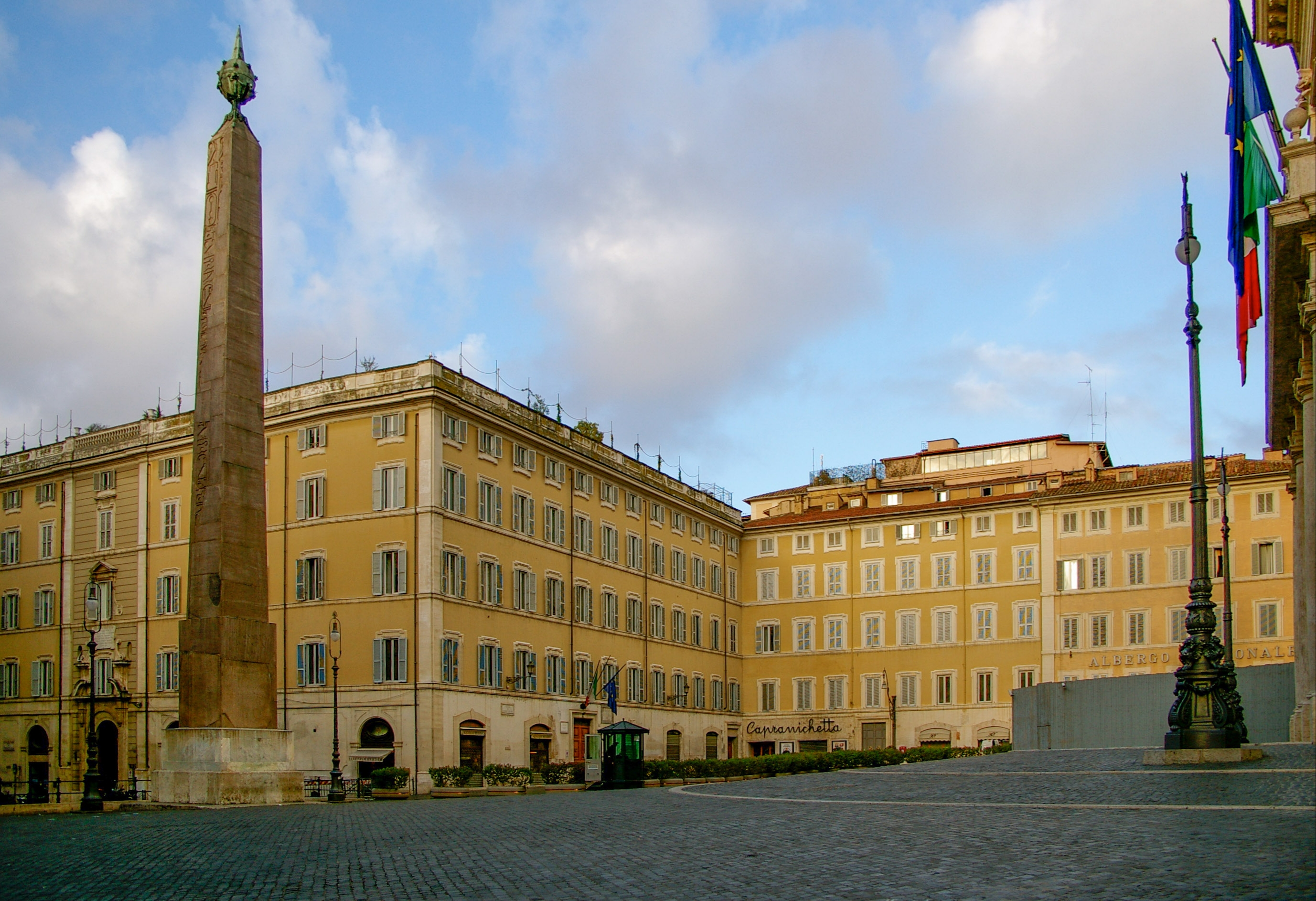 It's amazing how uncrowded everything is at about 9am. The best time to get out and about - then spend the afternoon lazing about in a cafe (photo: te)